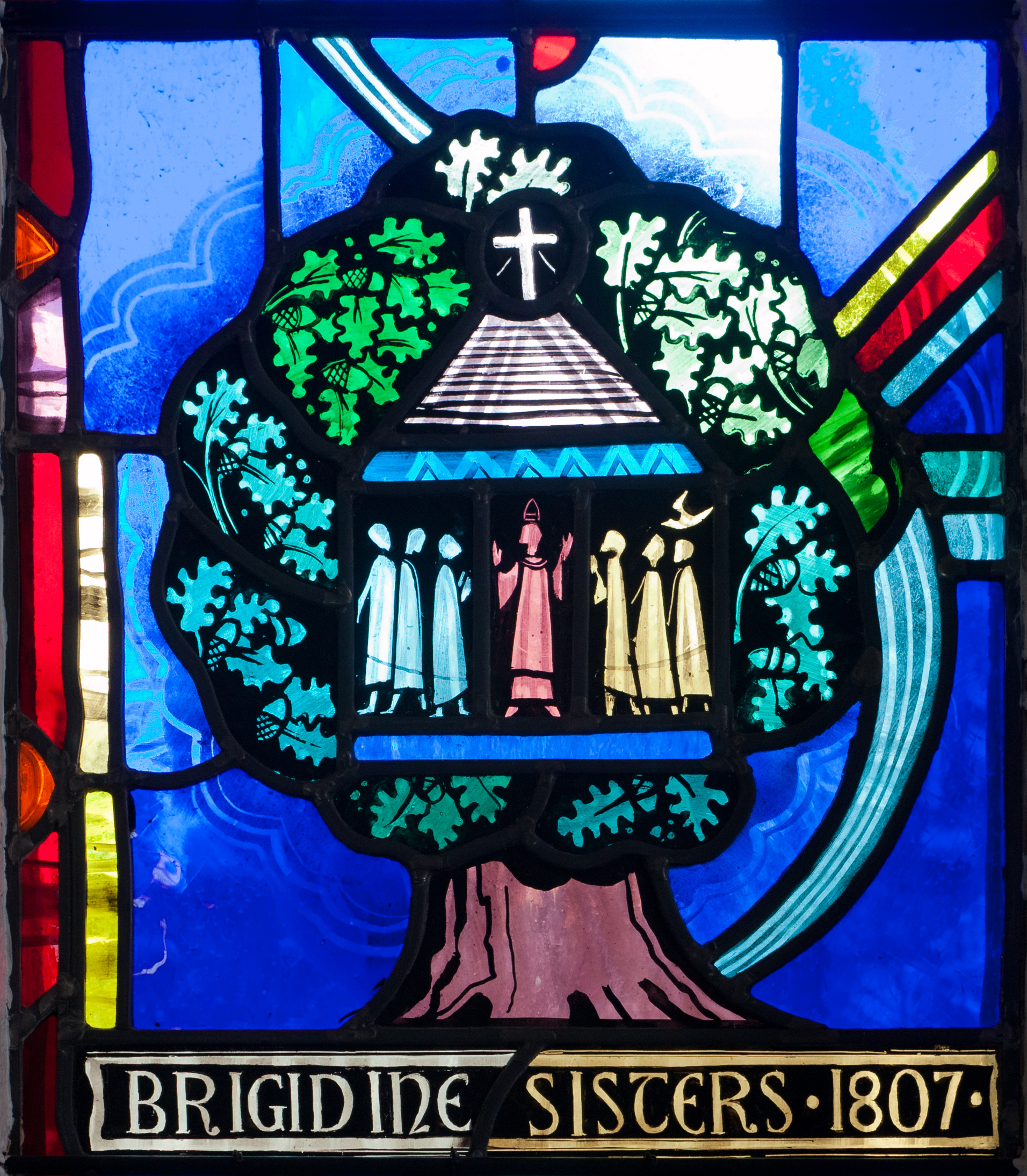 Detail of the left light of the stained glass window in the north wall of the north transept created by George Walsh, depicting the Brigidine Sisters. The oak tree refers to the oaks in the convent grounds in Tullow. The founder of the congregation, Bishop Daniel Delany, brought oak-saplings from Kildare and planted them. George Walsh (1939–) Alternative names George William WalshDescriptionIrish stained-glass artistDate of birth 1939 Location of birth Dublin Work location Dublin Authority control : Q45315802 creator QS:P170,Q45315802